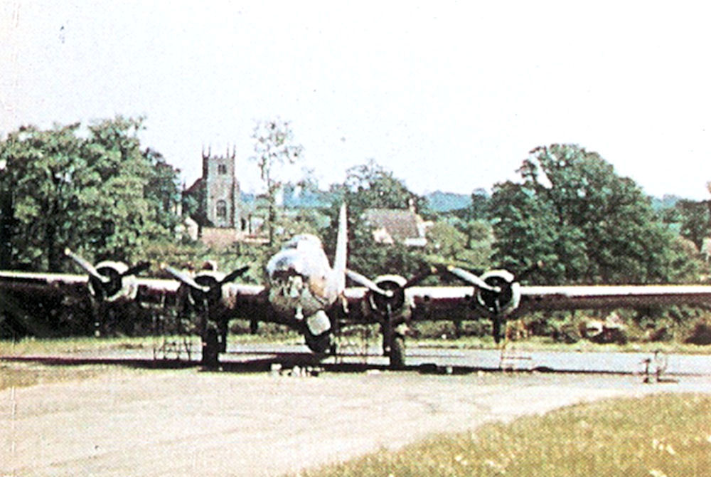 Unidentified 92d Bomb Group B-17G at Alconbury Airfield, England.